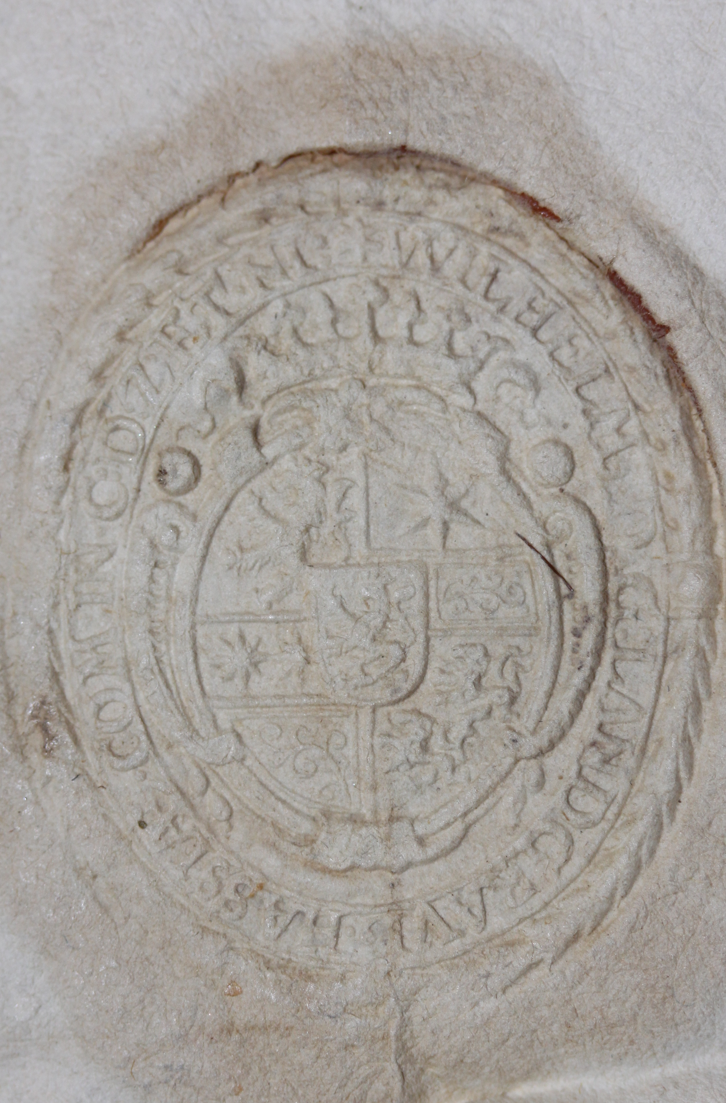 Seal of William V of Hesse-Kassel on a letter to John George I, Elector of Saxony, dated 23 Apr 1630. Legend: * WILHELM D· G· LANDGRAVI,· HASSIÆ· COM IN C: D: Z: ET NI: Wilhelm Dei Gratia Landgravius Hassiæ Comes In Cattimel Diez Ziegenhain et Nidda. Wilhelm, by the grace of God, Landgrave of Hesse, Count of Katzenelnbogen (formerly Cattimel), Diez, Ziegenhain, and Nidda. The Arms are quartered: Upper left, Crowned lion springing to the left of Katzenelnbogen; Upper right, 6-pointed star and shaded lower half of Ziegenhain; Lower left, Two 8-pointed stars and shaded lower half of Nidda; Lower right, 2 leopards passant left of Diez; Shield in center, Hessian lion rampant left.